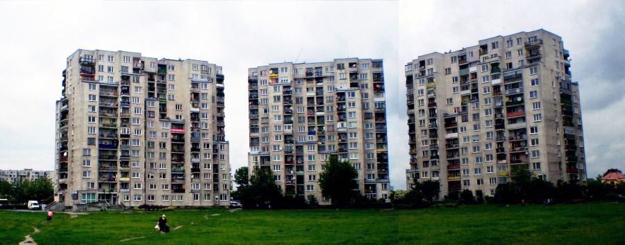 Targówek - houses near Trocka street.